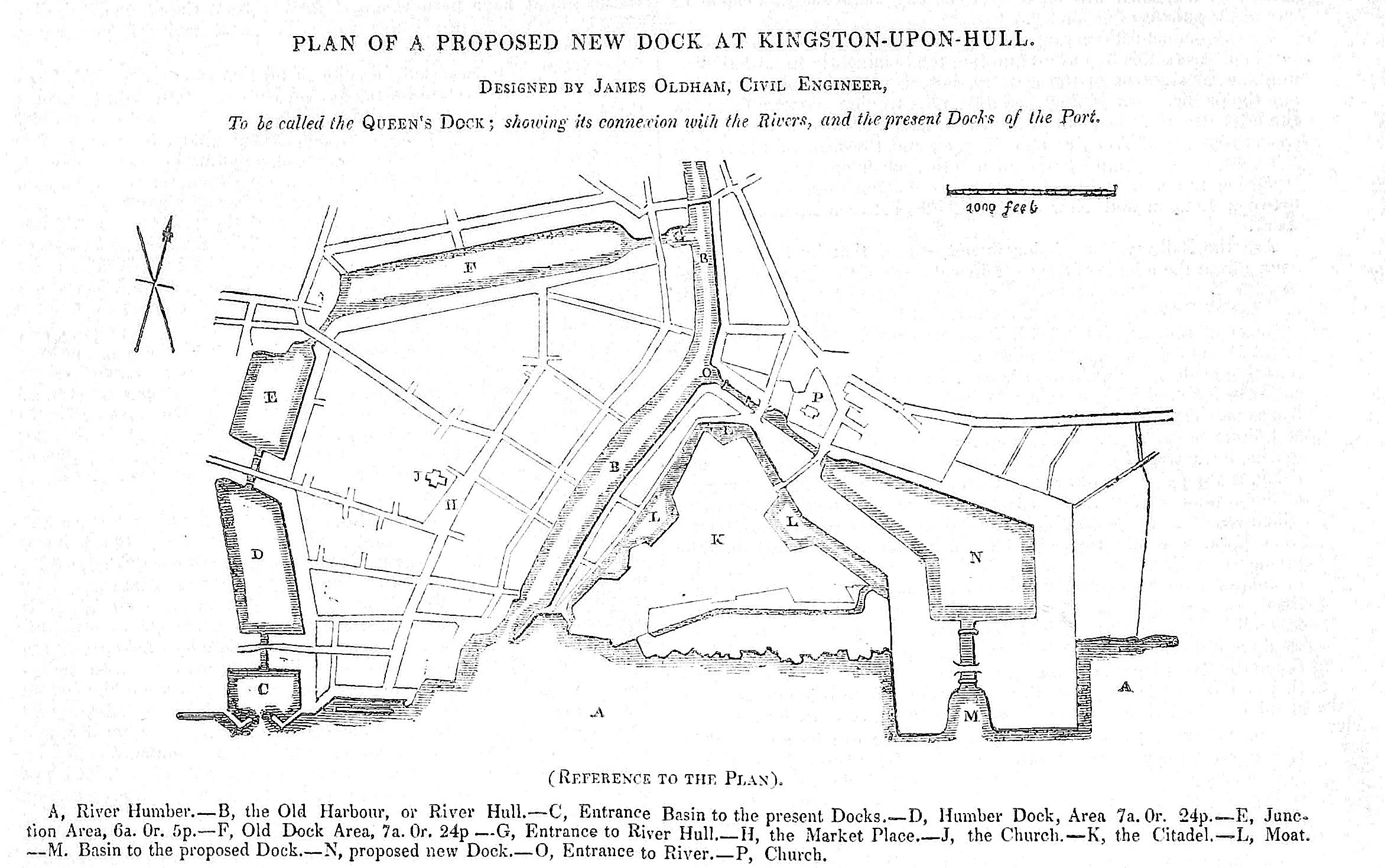 Diagram of the proposed "Queen's Dock" for the "Queen's Dock Company", Kingston upon Hull, UK c.1839 A forerunner of the Victoria Dock, and to a similar design. Unbuilt Design by Thomas Oldham Published In the The Civil engineer and architect's journal, scientific and railway gazette (1839) p.16